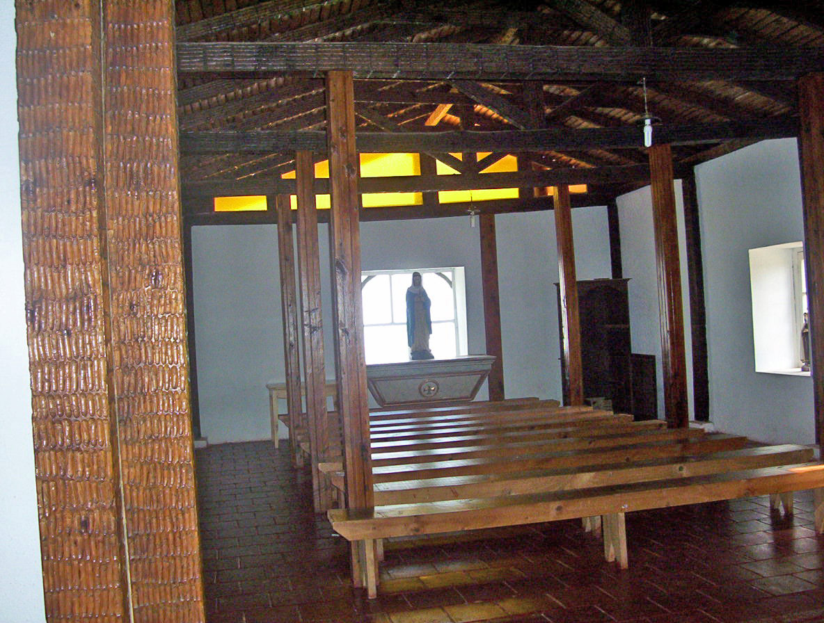 El Totoral's Church